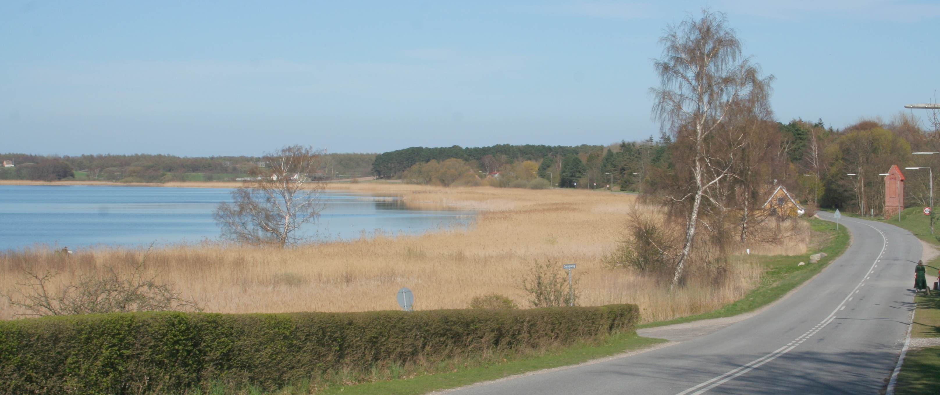 Lake Arresø near Dronningholm - in Region Hovedstaden just north of Ølsted and east of Frederiksværk in Denmark.